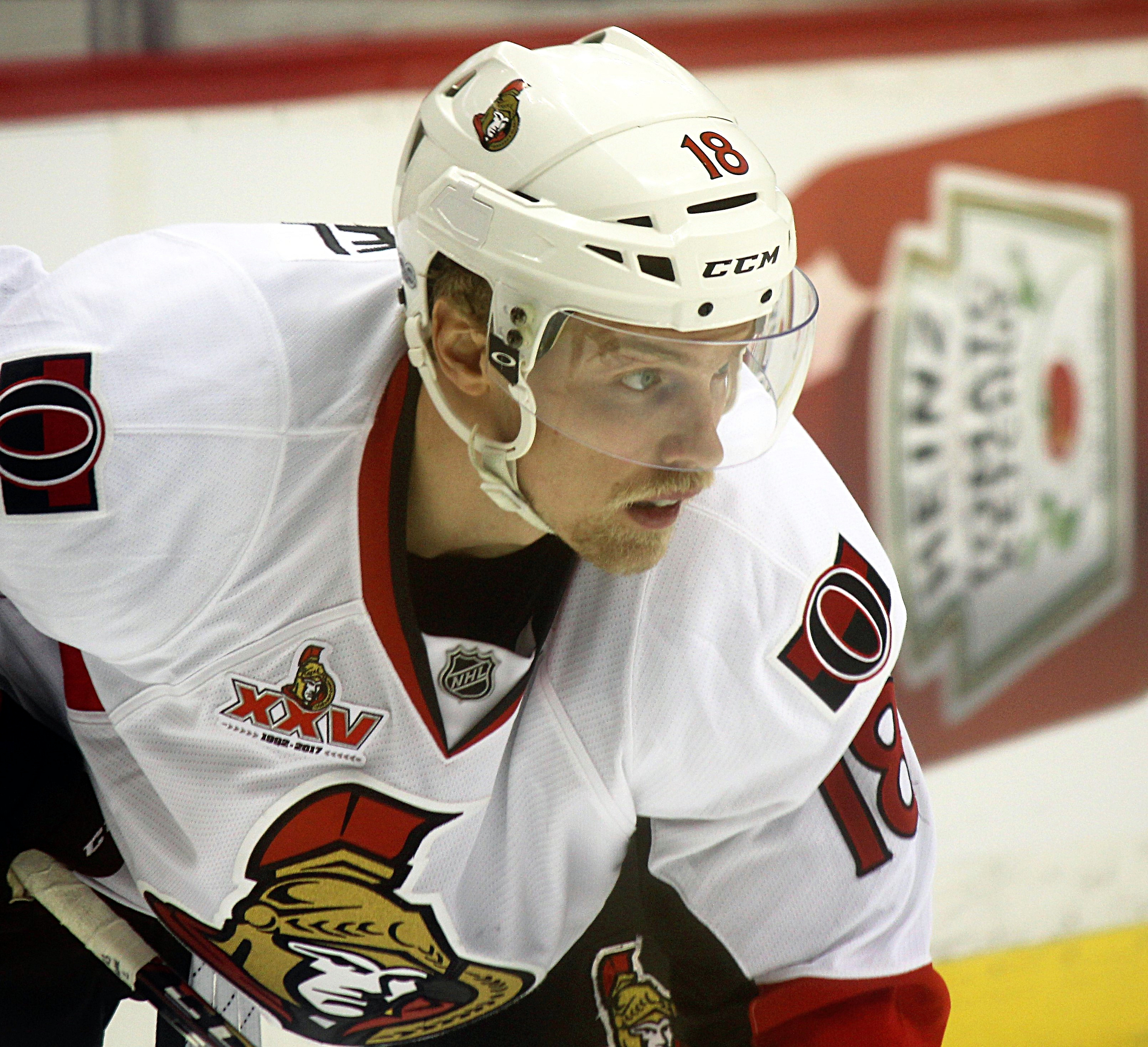 Ottawa Senators forward Ryan Dzingel during a playoff game against the Pittsburgh Penguins, May 13, 2017, at PPG Paints Arena in Pittsburgh, PA.